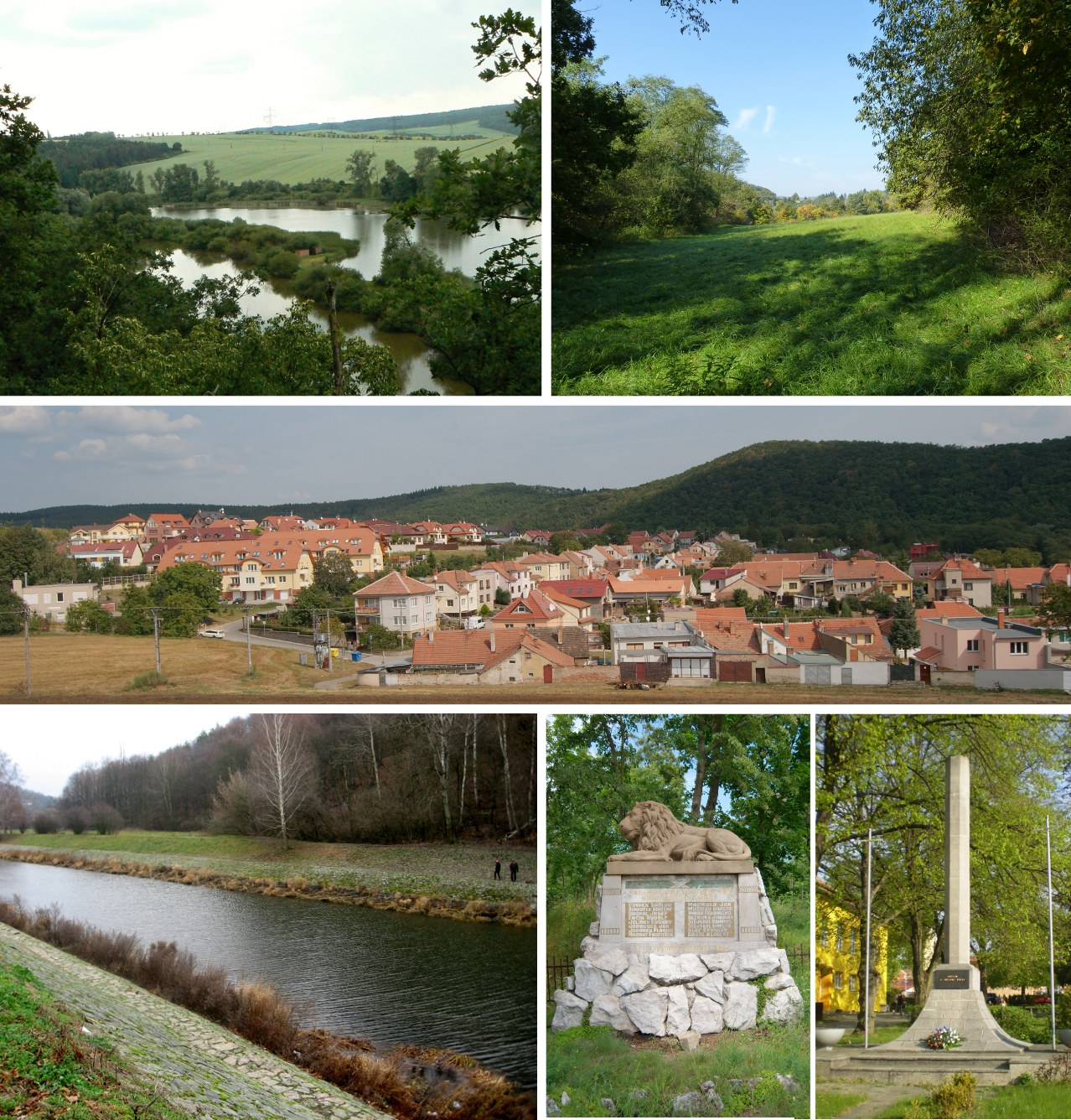 Brno-Kníničky city district